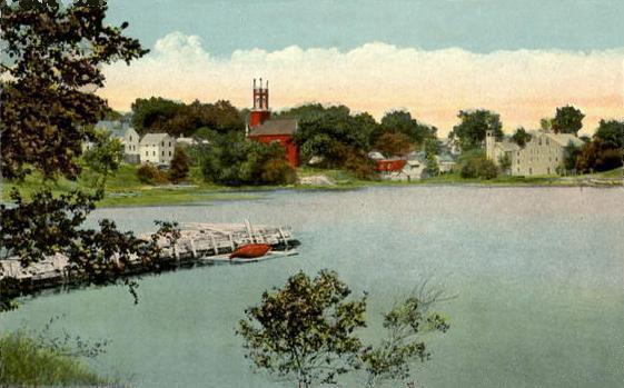 Along the shore, Newcastle, ME; from a c. 1920 postcard published by Tichnor Quality Views.